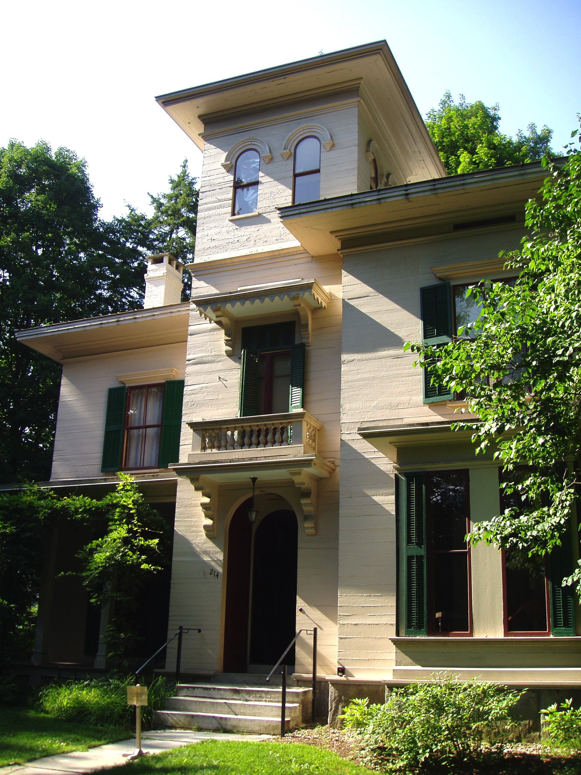 Austin Dickinson house, Amherst, Massachusetts. The Evergreens. for more information go to the official Emily Dickinson website